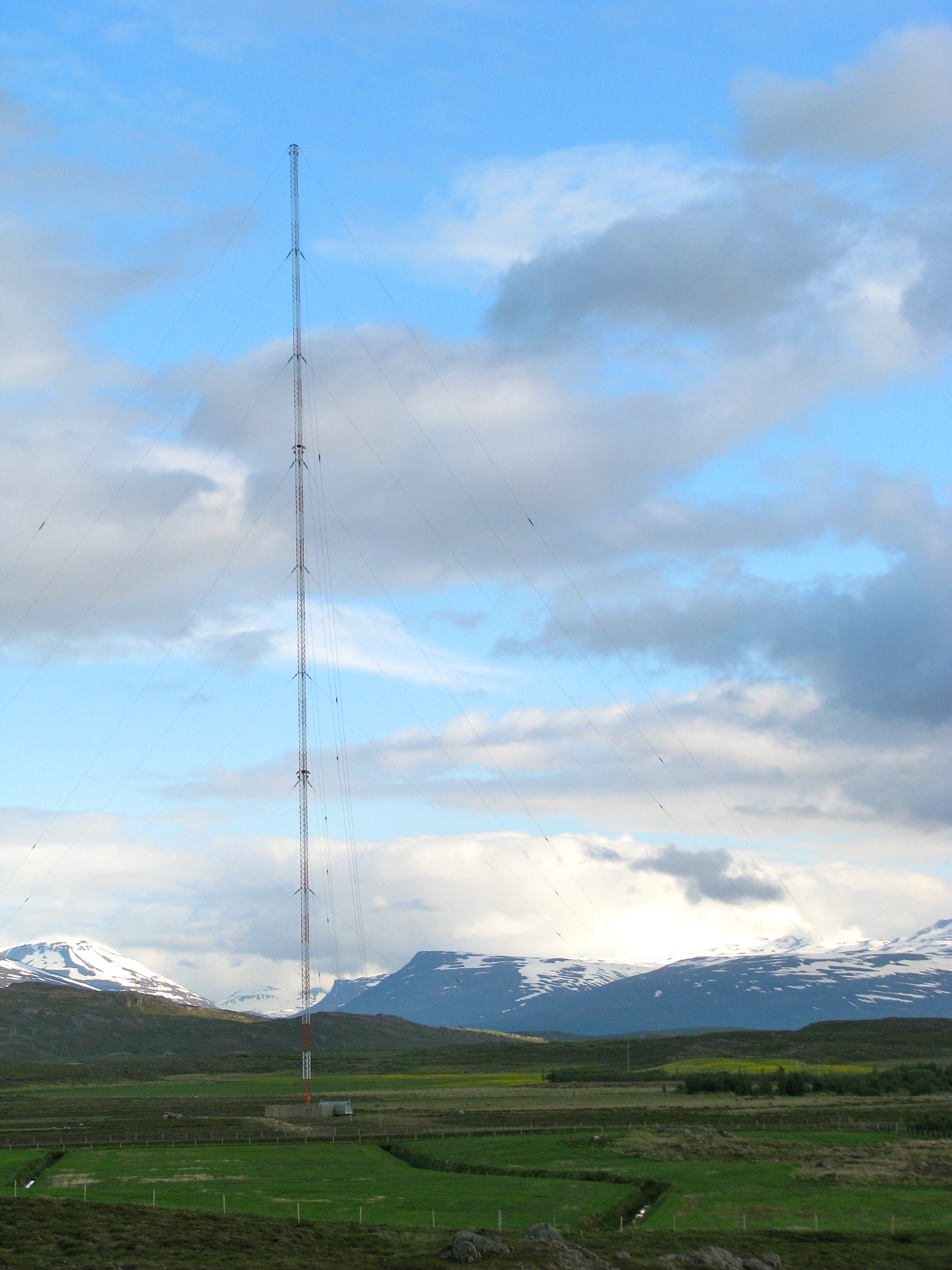 A radio relay station at Eiðar, a small place in Eastern Iceland.